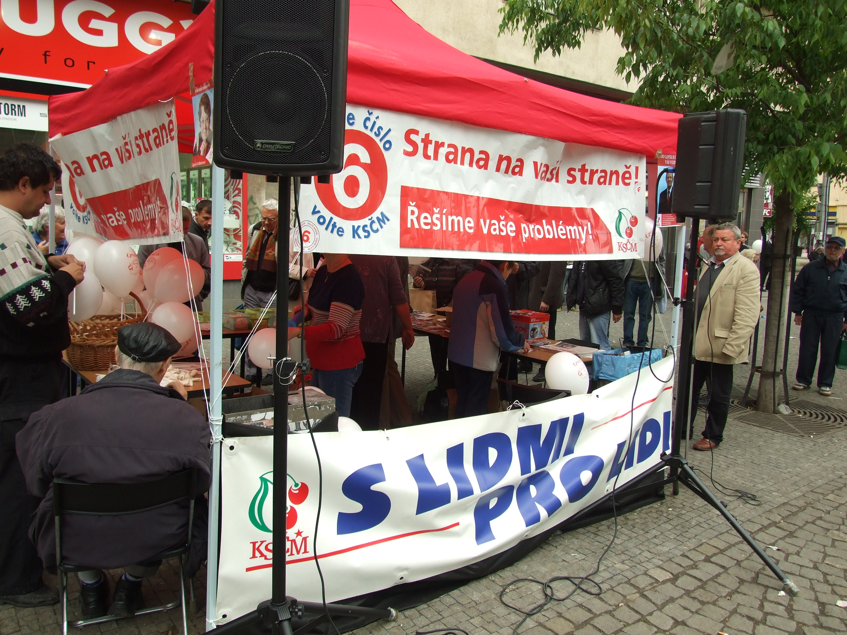 Czech Communist party on Prague-Anděl, part of their election campaign for May 2010 elections, CZ